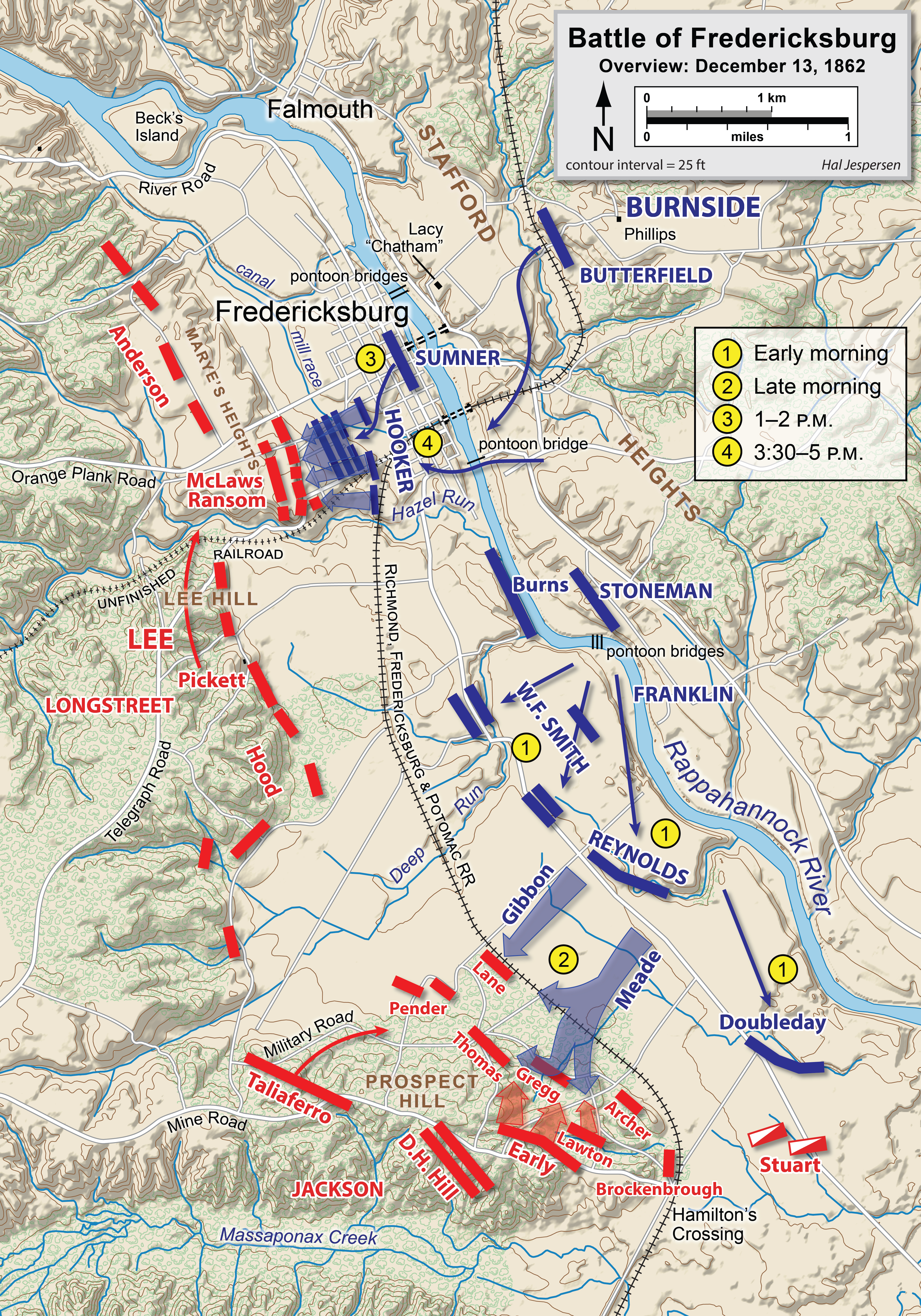 Map of the Battle of Fredericksburg of the American Civil War, overview. Drawn in Adobe Illustrator CS5 by Hal Jespersen. Graphic source file is available at